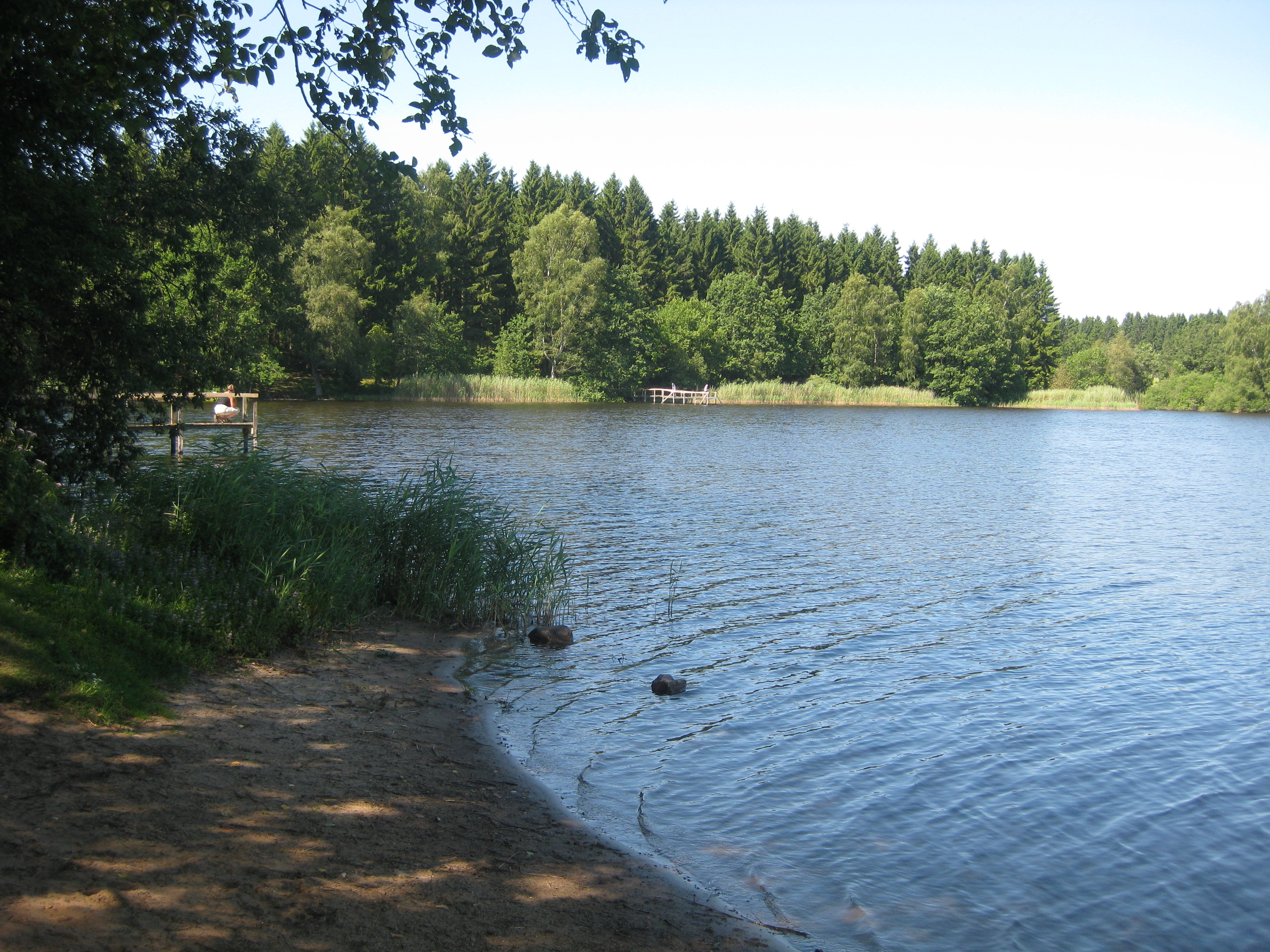 Verkasjön, lake in Tomelilla Municipality